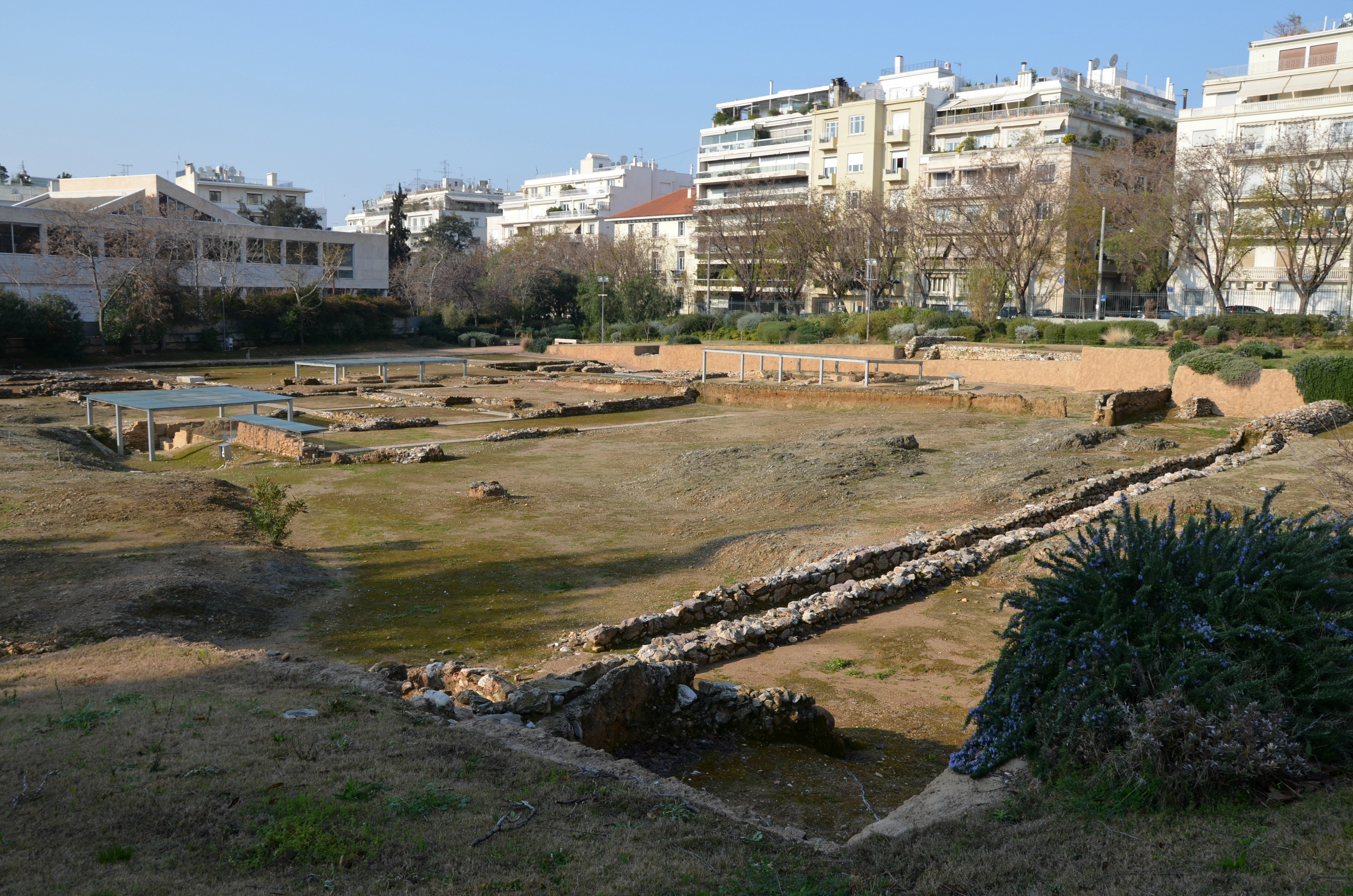 During a 1996 excavation to clear space for Athens’ new Museum of Modern Art, the remains of Aristotle’s Lyceum were uncovered. Descriptions from the works of ancient philosophers hint at the location of the grounds, speculated to be somewhere just outside the eastern boundary of ancient Athens, near the rivers Ilissos and Eridanos, and close to Lycabettus Hill. The excavation site is located in downtown Athens, by the junction of Rigillis and Vasilissis Sofias Streets, next to the Athens War Museum and the National Conservatory. The first excavations revealed a gymnasium and wrestling area, but further work has uncovered the majority of what is believed to have withstood the erosion caused to the region by nearby architecture’s placement and drainage. The buildings are definitely those of the original Lyceum, as their foundations lie on the bedrock and there are no other strata further below. Upon realizing the magnitude of the discovery, contingency plans were made for a nearby construction of the Art Museum so that it could be combined with a Lyceum outdoor museum and give visitors easy access to both. There are plans for canopies to be placed over the Lyceum remains, and the area was opened to the public in 2009. (Classical)#Aristotle's_Lyceum_today